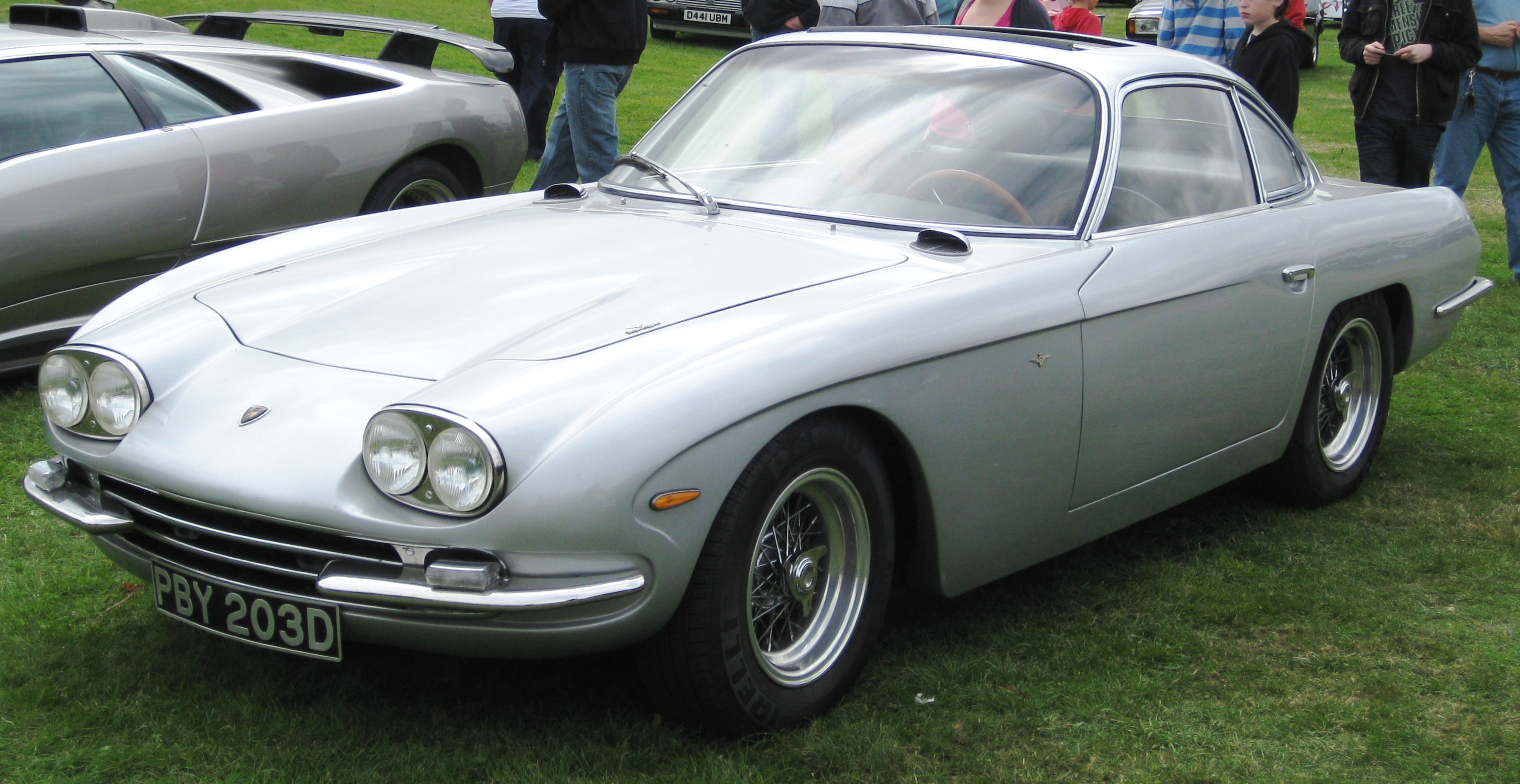 Lamborghini 400 GT 2+2